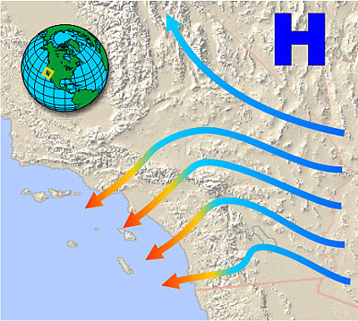 Map illustration showing propagation of a Santa Ana wind event in southern California, USA